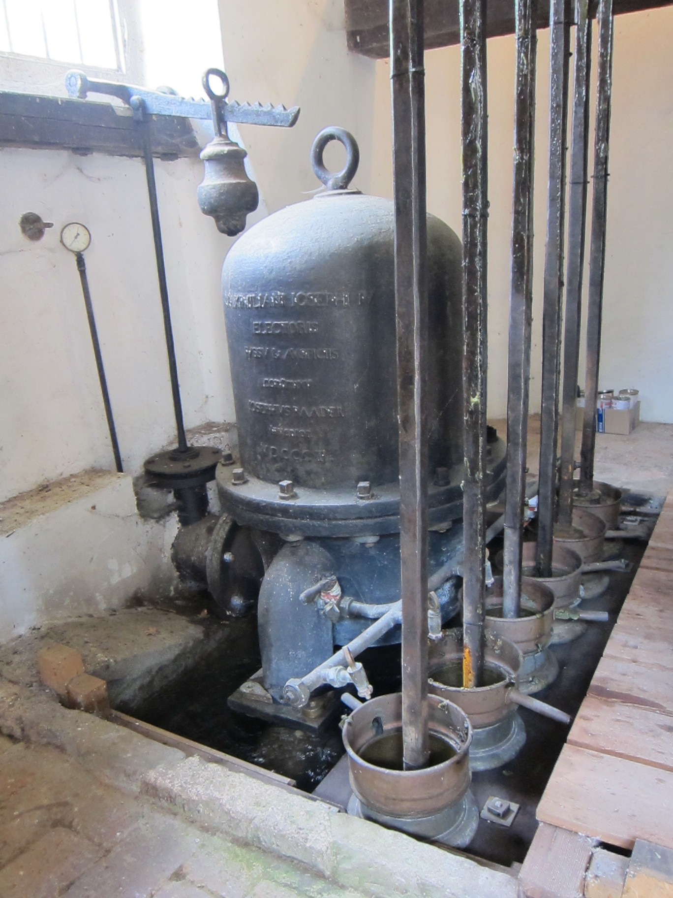 Pumping stations at the Nymphenburg Palace: Green Pump House, western works: pressure vessel and six pumping cylinders with rods; to the left is the outlet valve controlled by a balance weight.